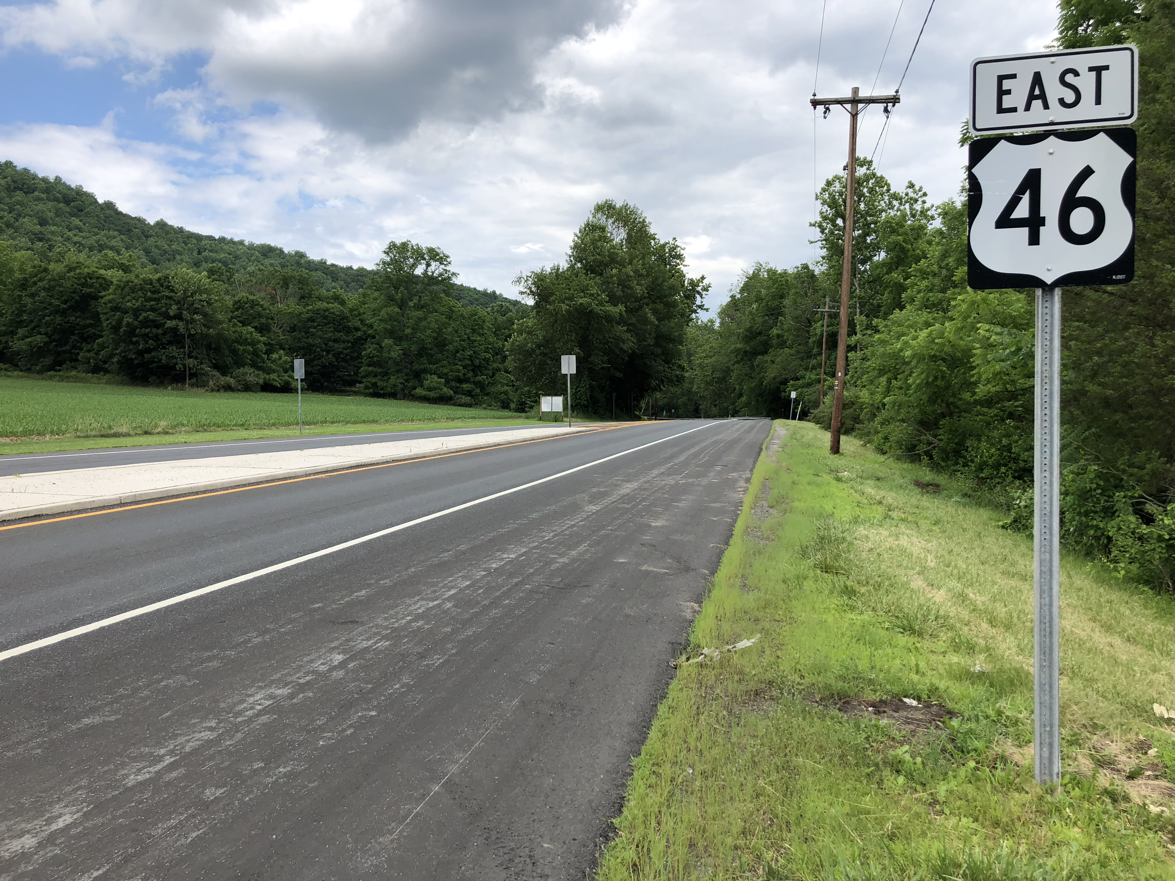 View east along U.S. Route 46 just east of the Pequest Hatchery in Liberty Township, Warren County, New Jersey